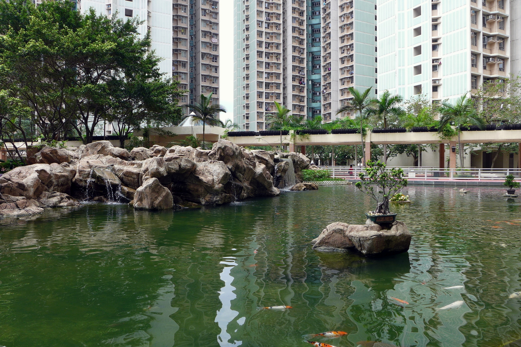 Tin Shing Court Pond